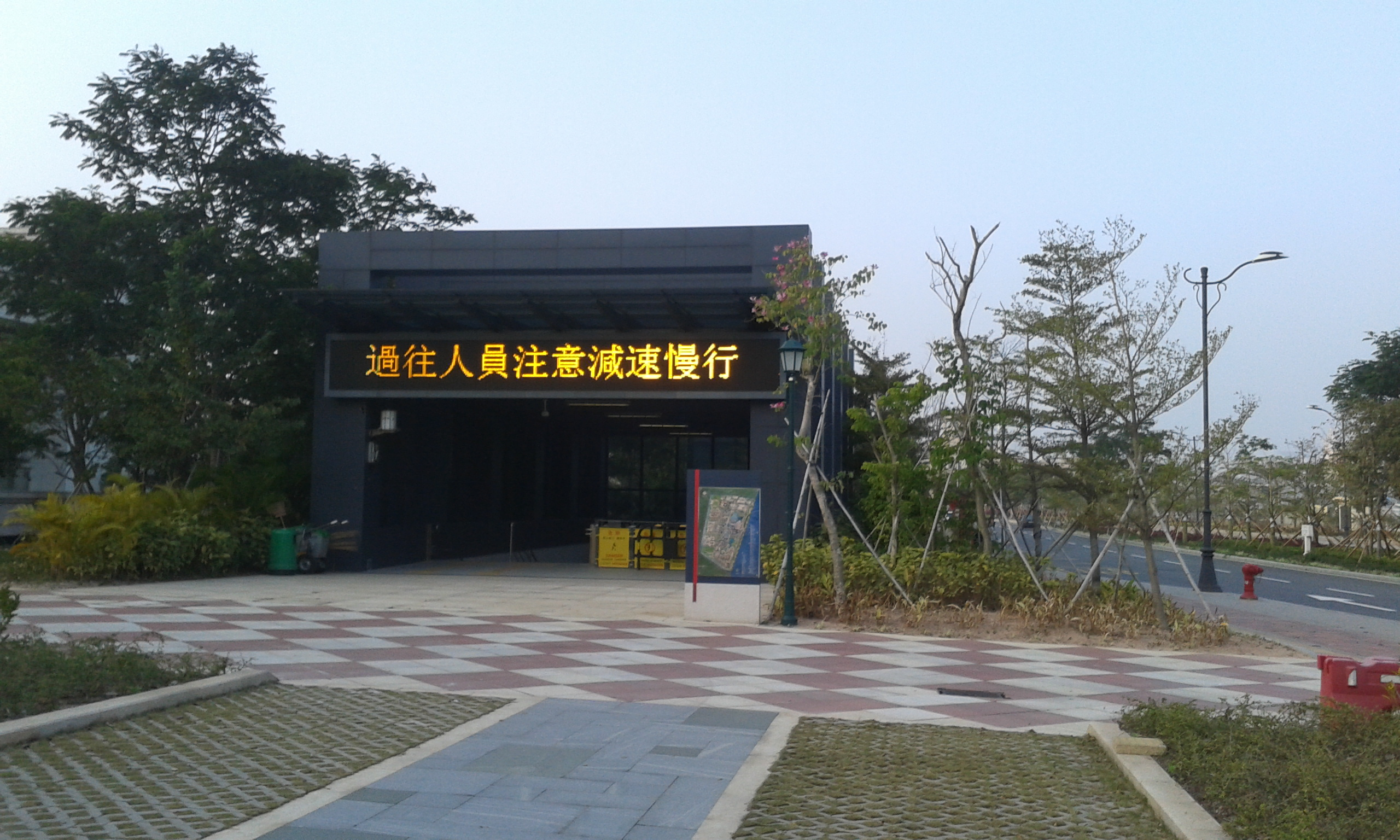 a Tunnel at UM